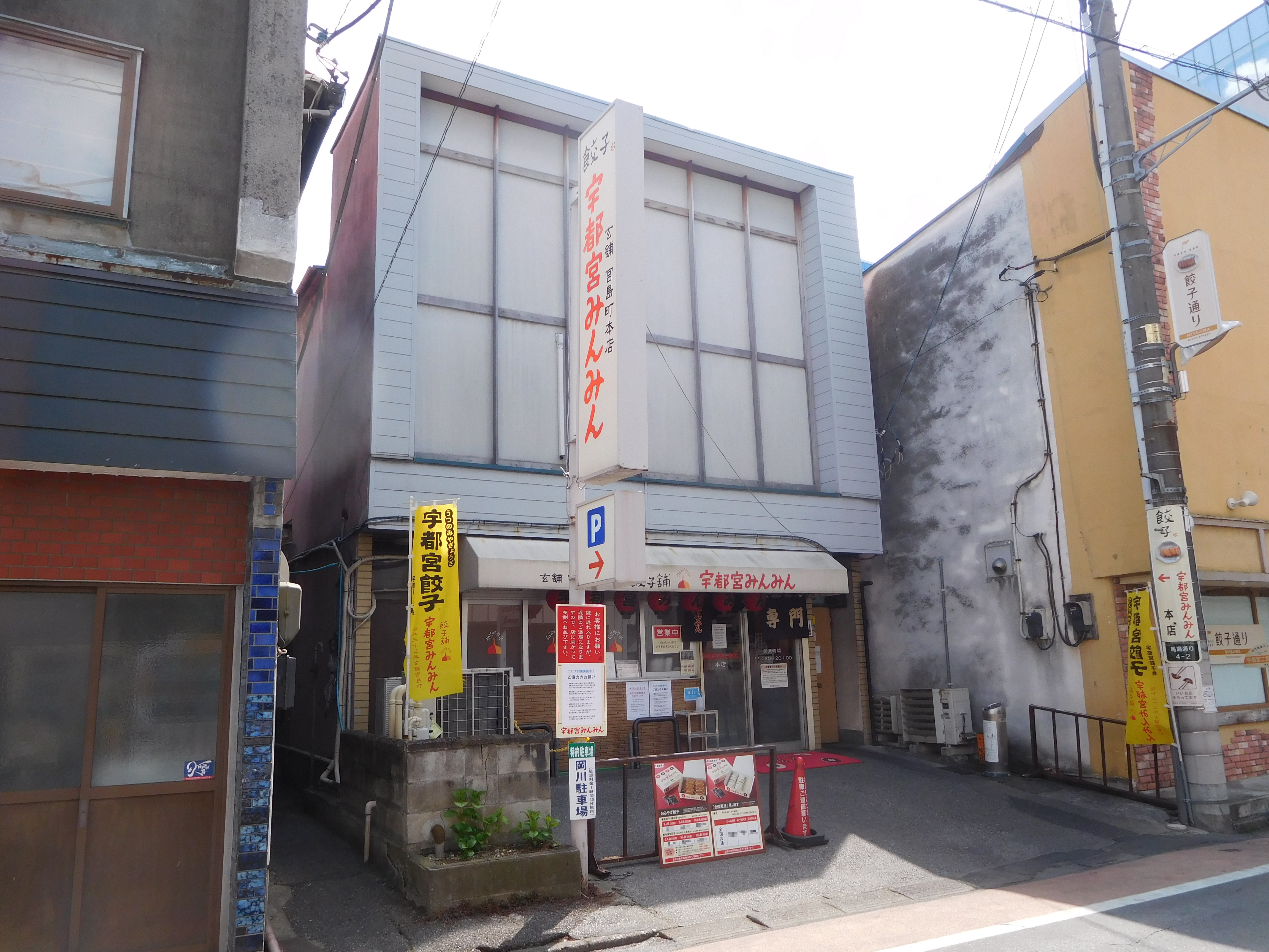 This is Utsunomiya-Minmin Main Shop, gyoza shop in Utsunomiya, Tochigi, Japan.